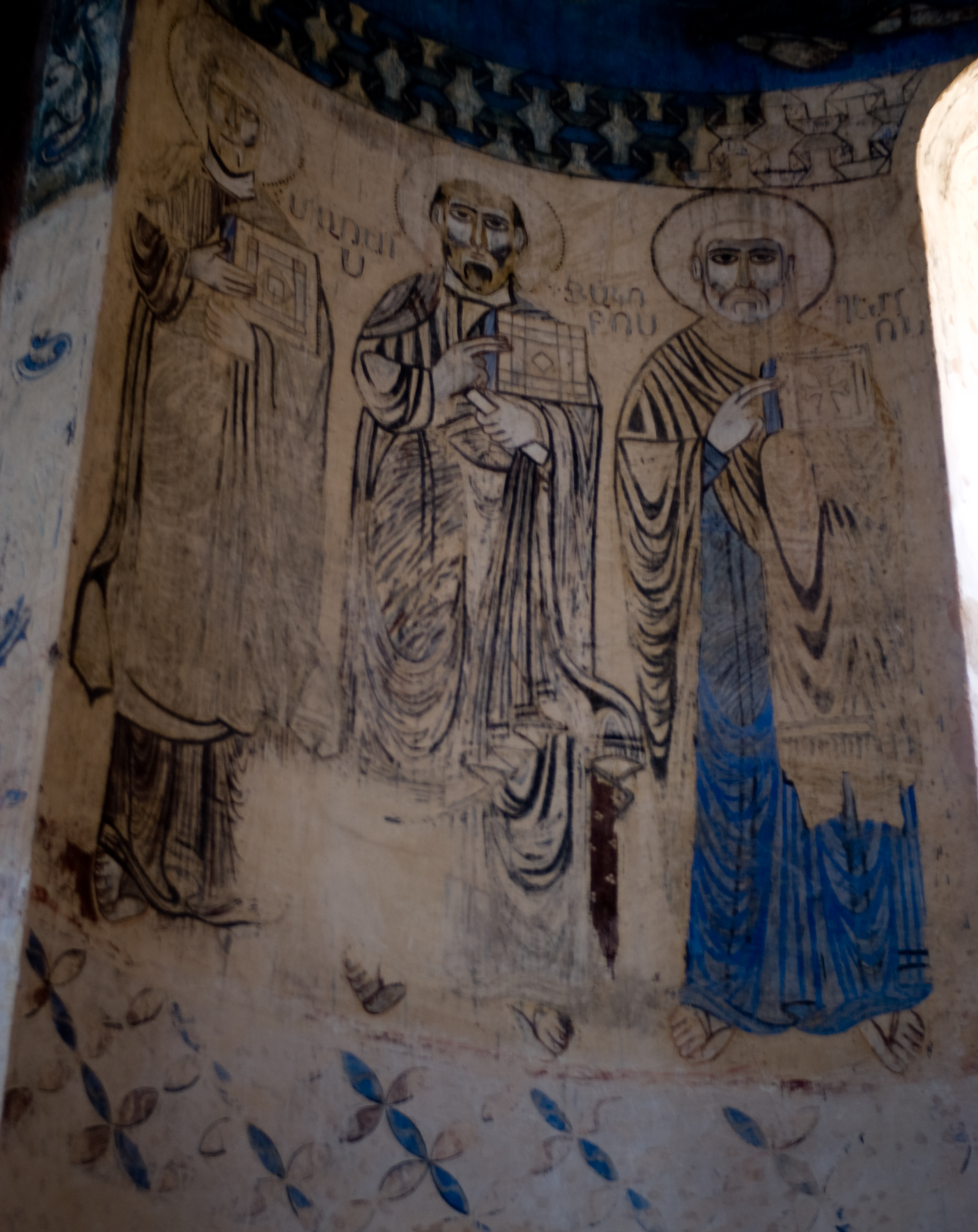 Wall paintings inside the Church of Akhtamar, Van lake, Turkey